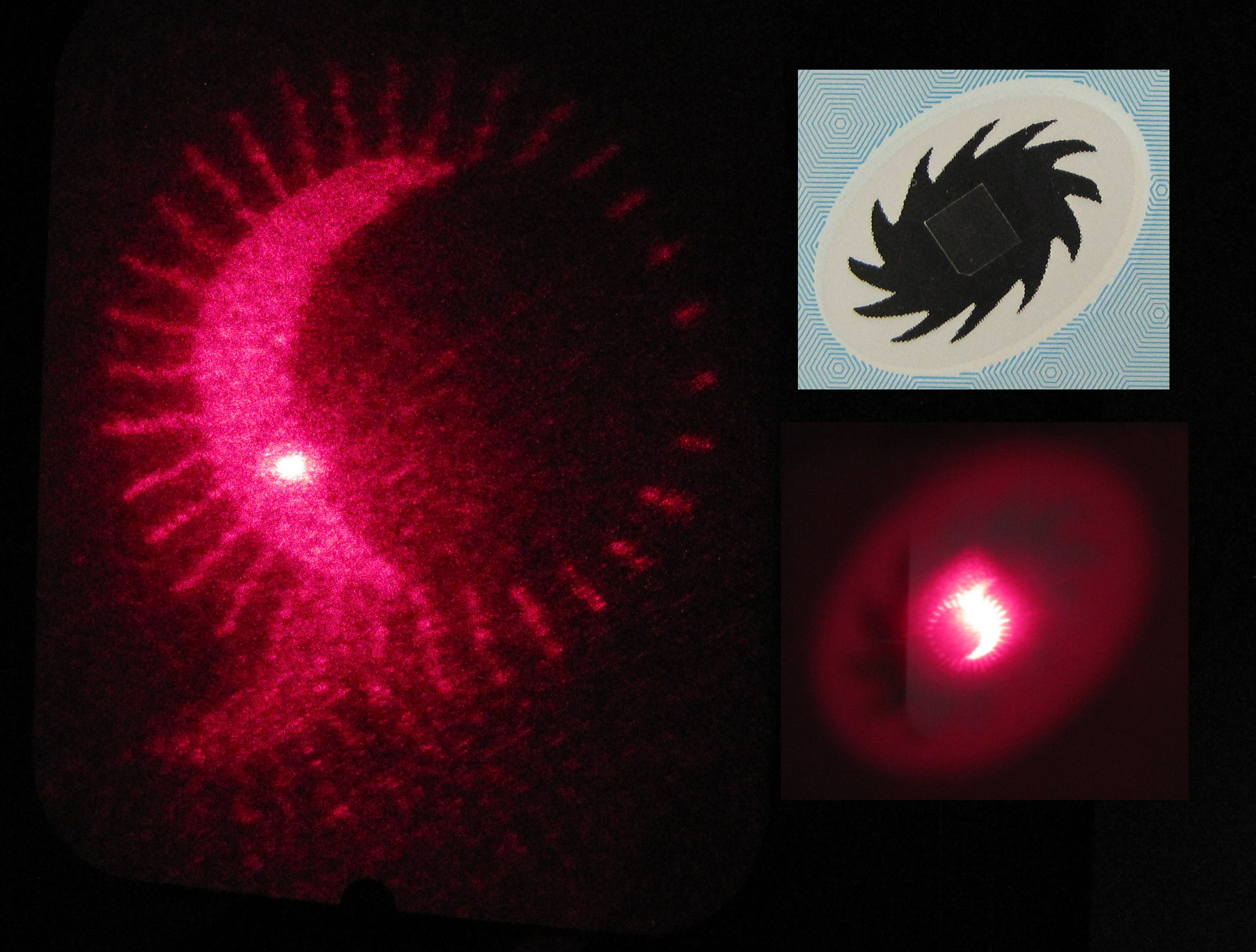 Composite image of the transmission hologram embedded in the 1999 Romanian two thousand lei banknote. The upper right image is of the hologram (the square). The lower right image was taken through the hologram while looking at a single-color point light source in the distance. The image to the left is the projection of the hologram by shining a laser through it, producing this image in the far-field.